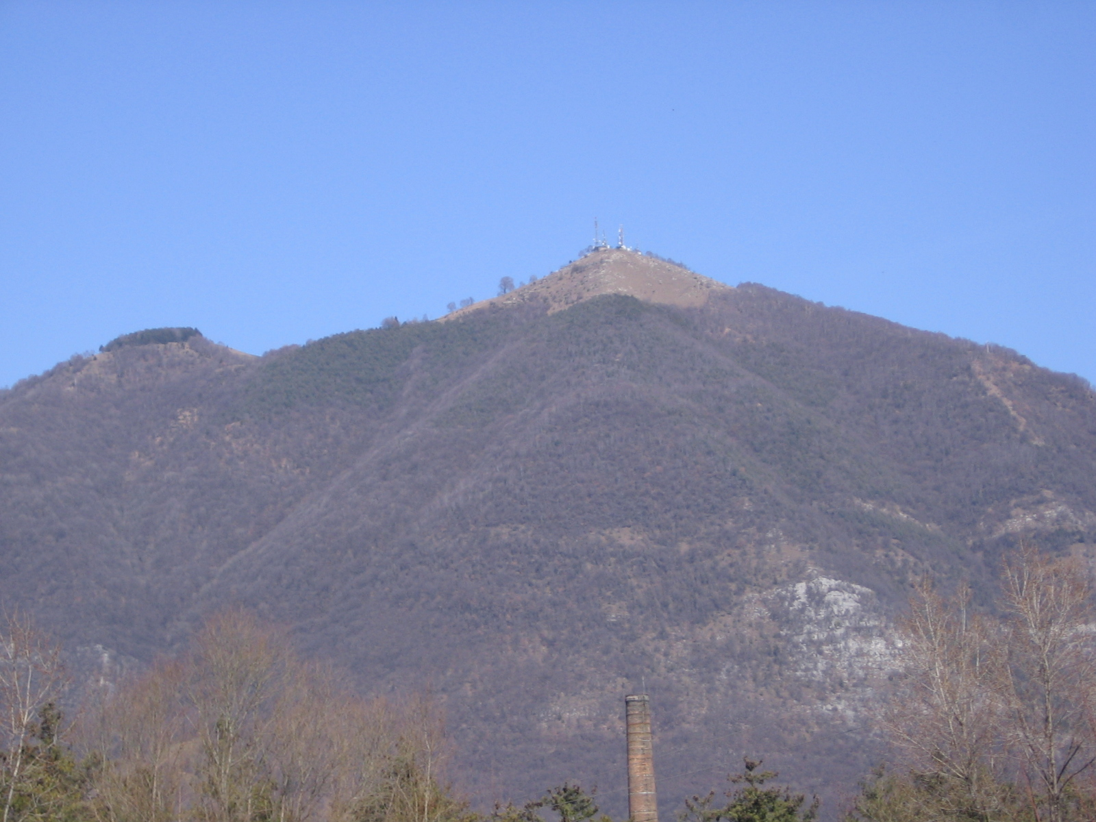 Monte Rena, Bergamo, Italy